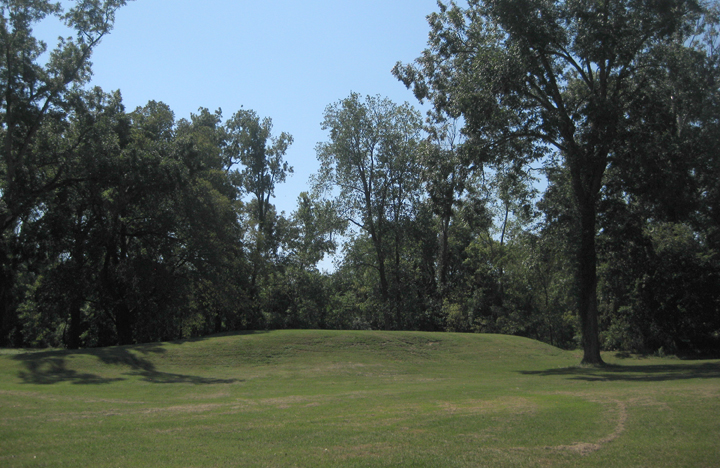 View of Temple Mound from the plaza at the Grand Village of the Natchez, or Fatherland Site, in Natchez, Mississippi.